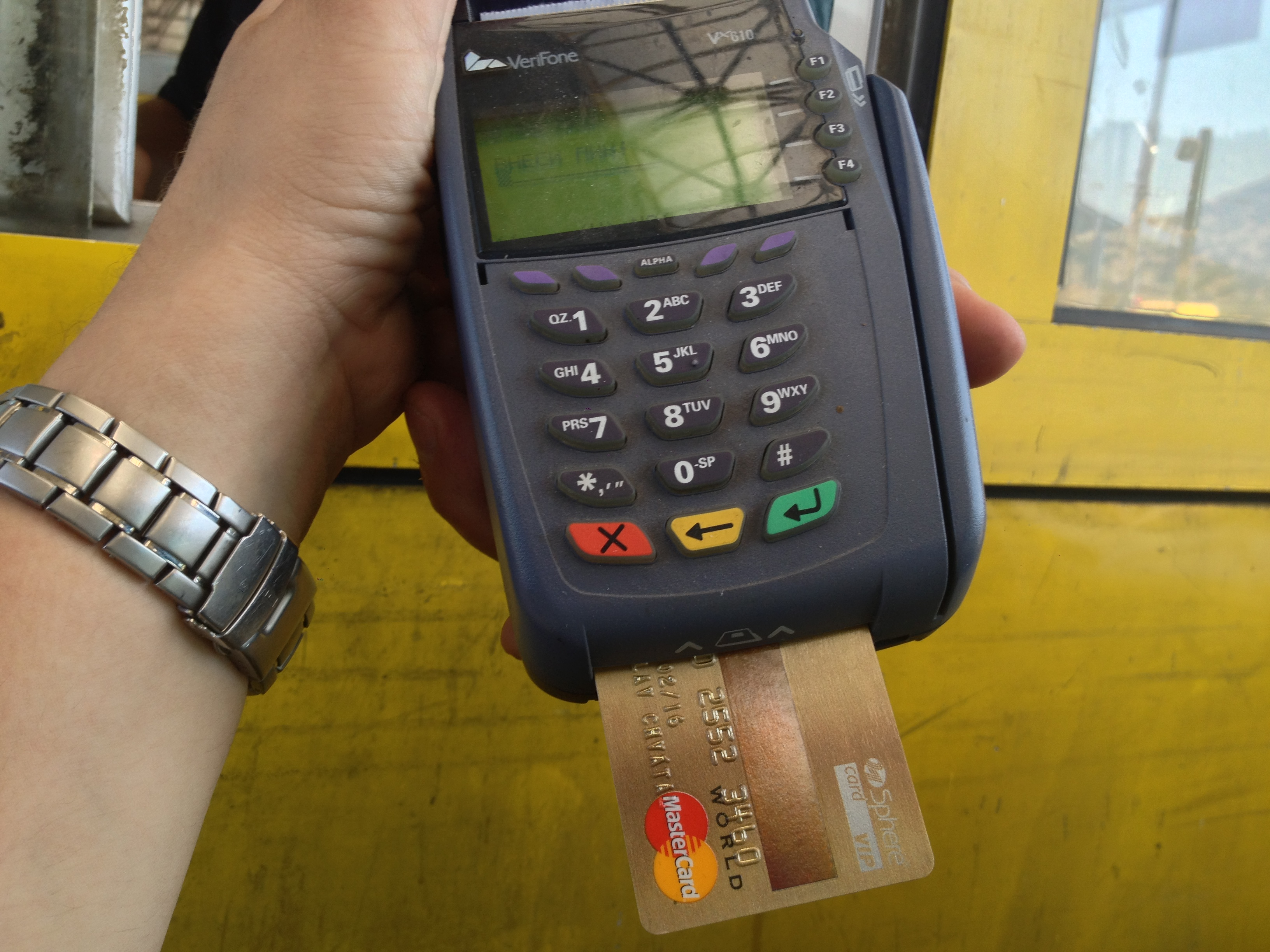 Municipality of Jegunovce, Macedonia (FYROM)